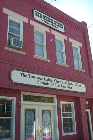 Red Brick Store in Manti. Original photo by John Hamer.